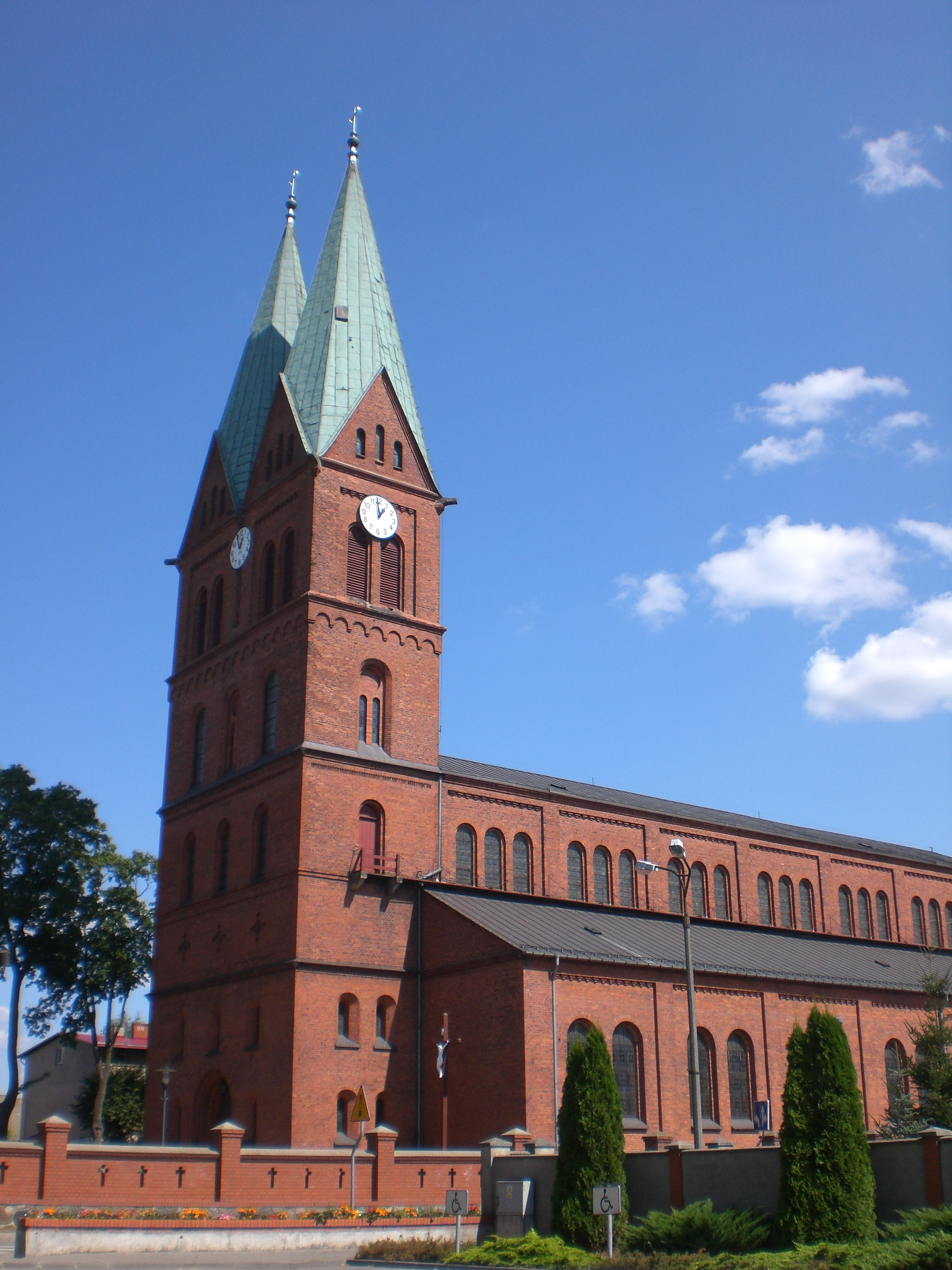 Brusy - church